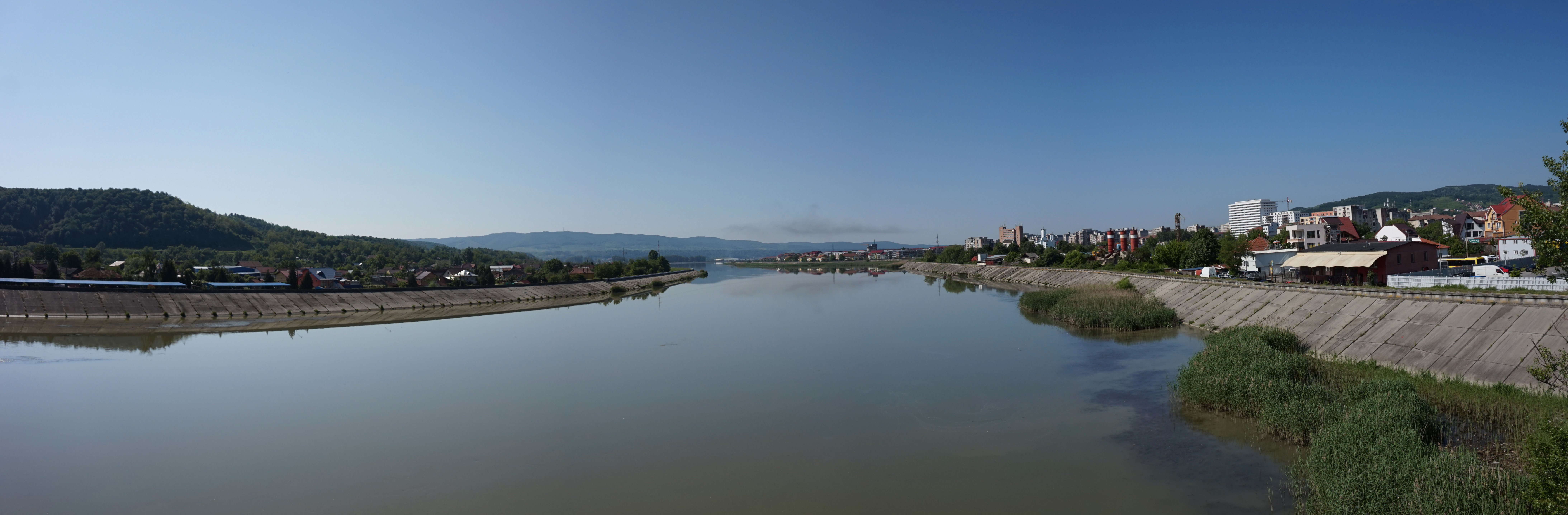 Olt river, Ramnicu Valcea. This photograph was taken with a Sony Alpha a5000.